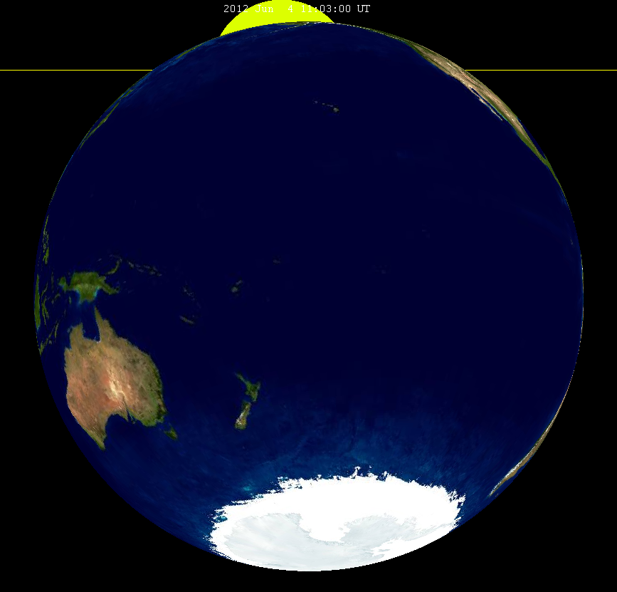 June_2012_lunar_eclipse view of earth The orientation of the earth as viewed from the center of the moon during greatest eclipse. thumb